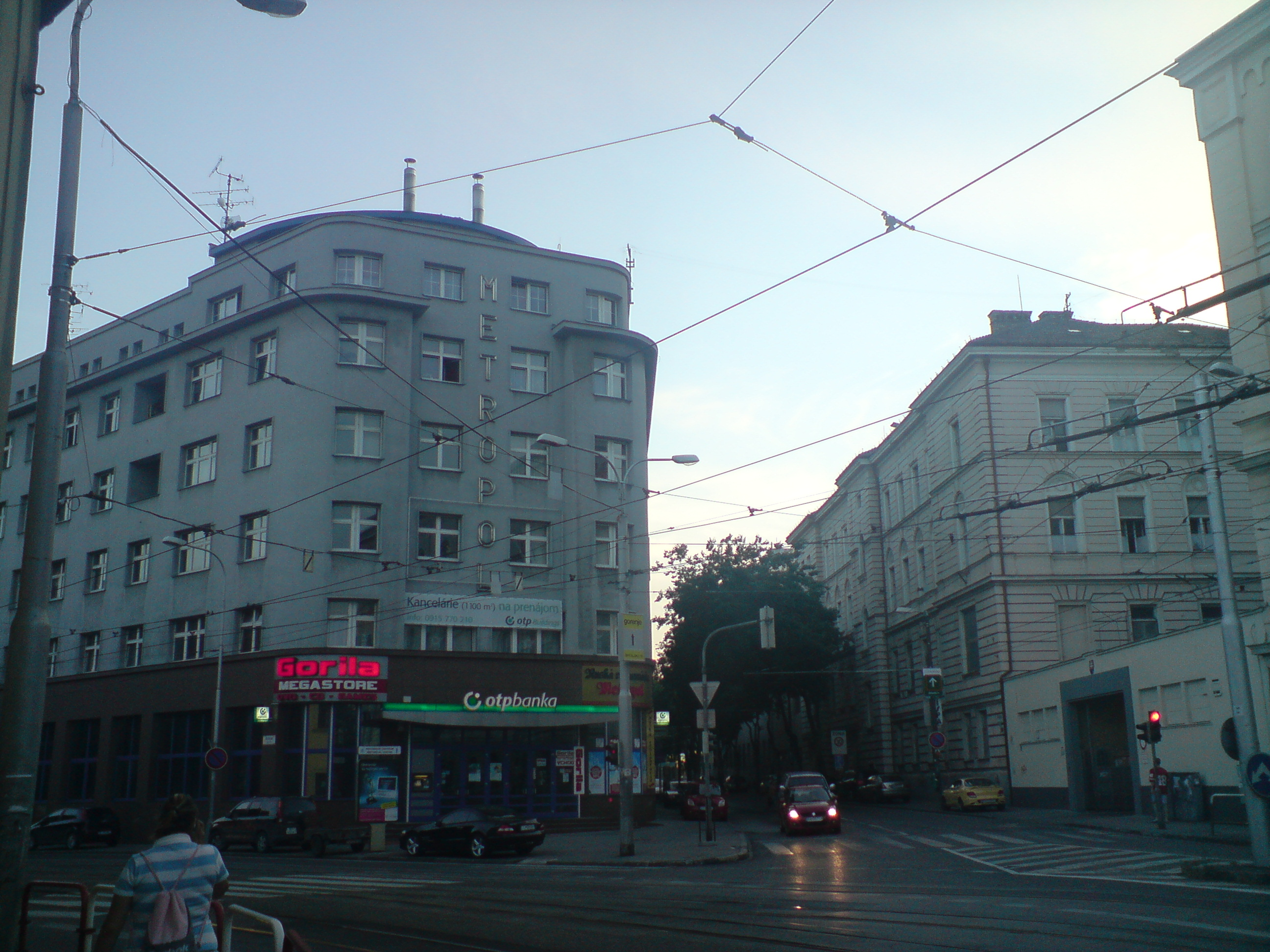 Metropol building, Špitálska street, Bratislava